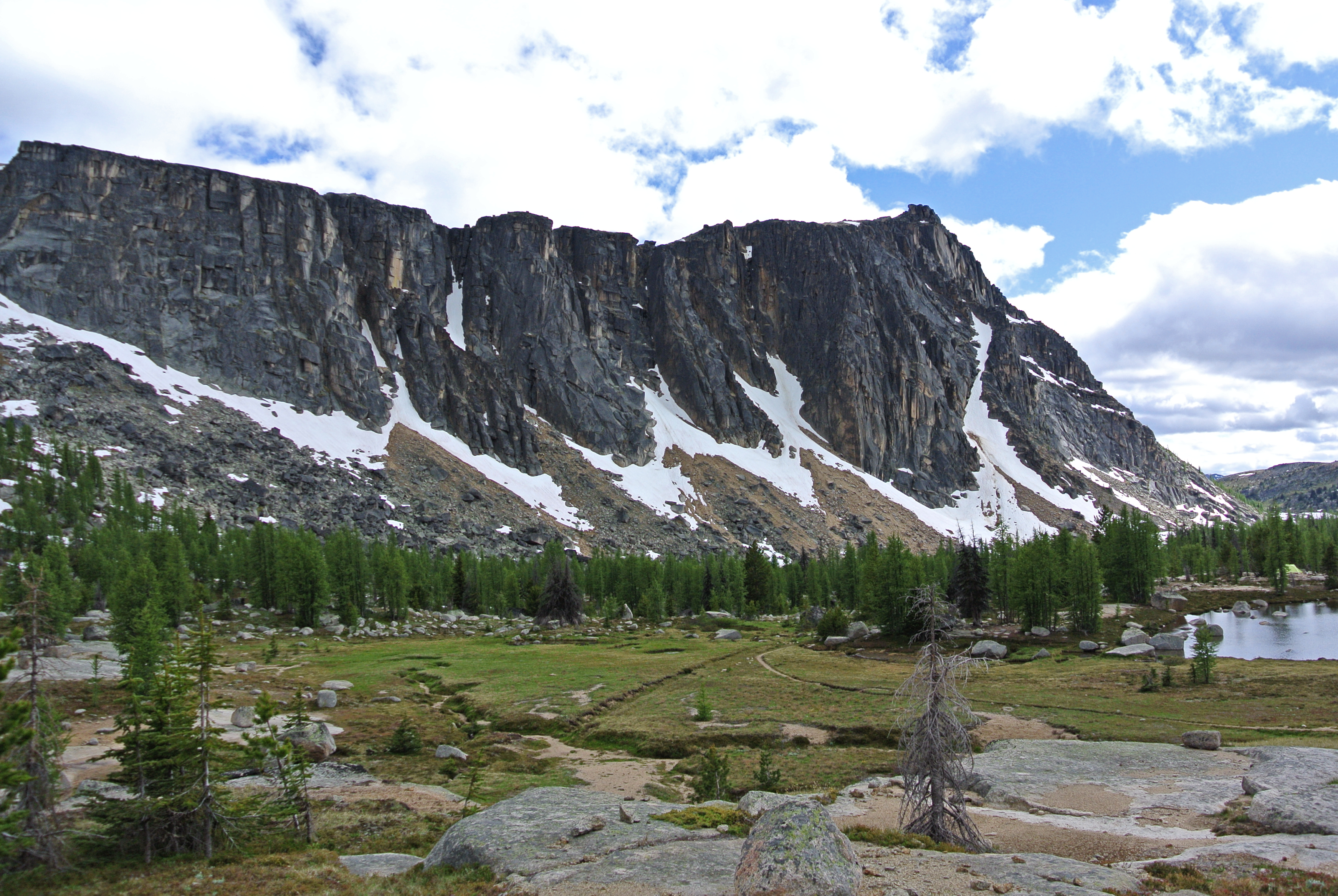 Amphitheater Mountain seen from Cathedral Pass in Pasayten Wilderness of WA